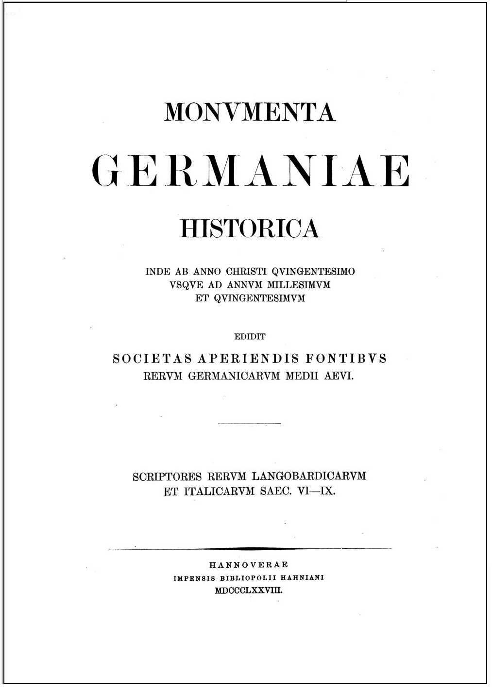 Title page of Monumenta Germaniae Historica